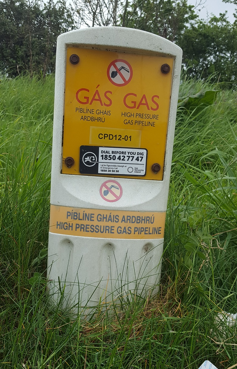 warning notice in Dublin, Ireland from Bord Gais. Located on Saint Margaret’s Road in north county Dublin.